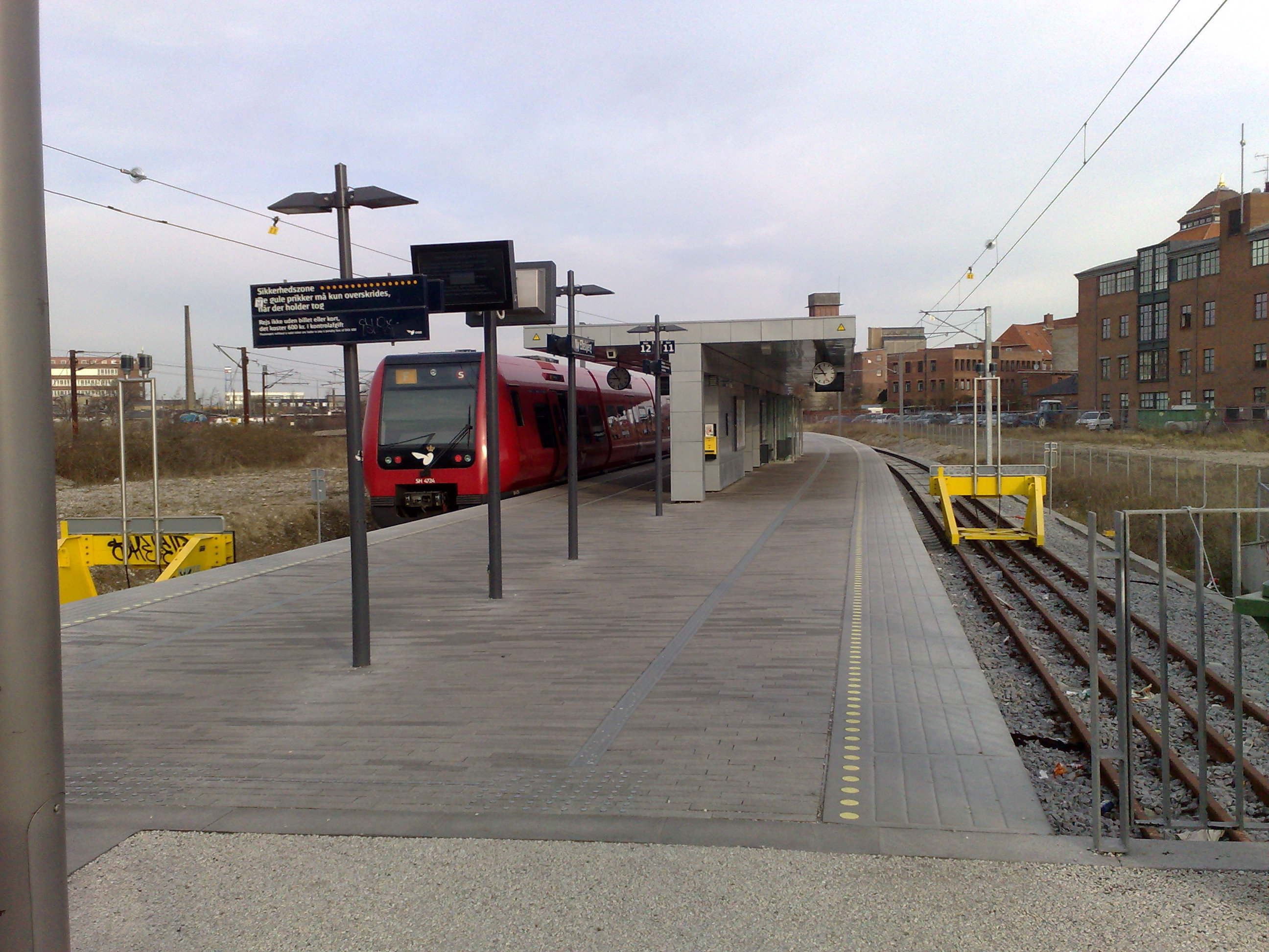 Copenhagen railway station platform Ringbanen (the circle railway)